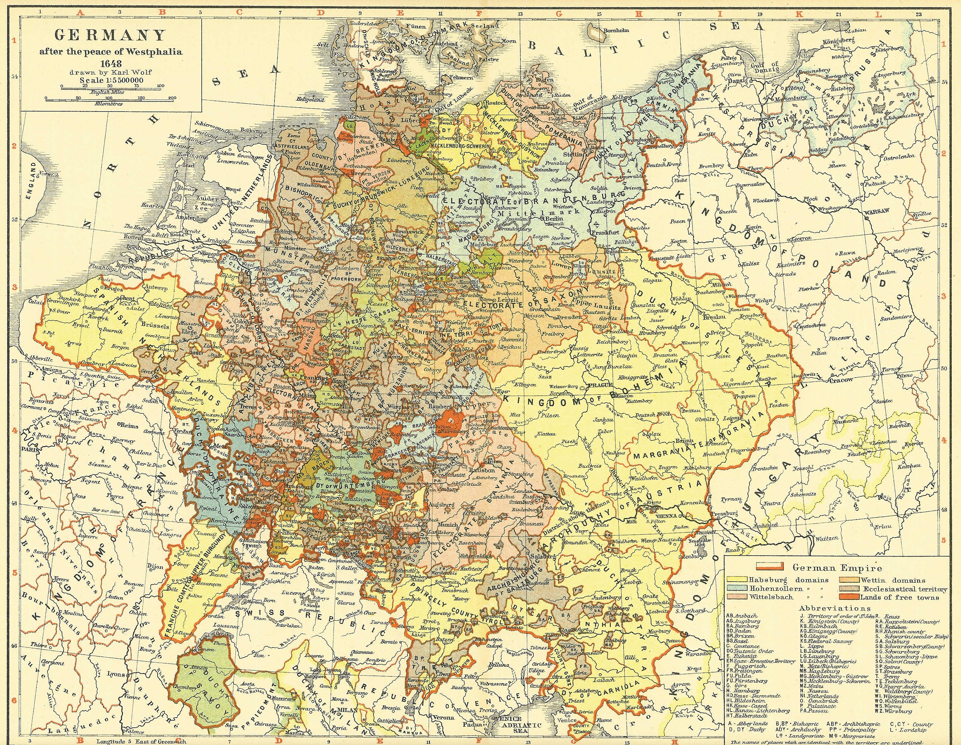 Map: Germany after the Peace of Westphalia 1648